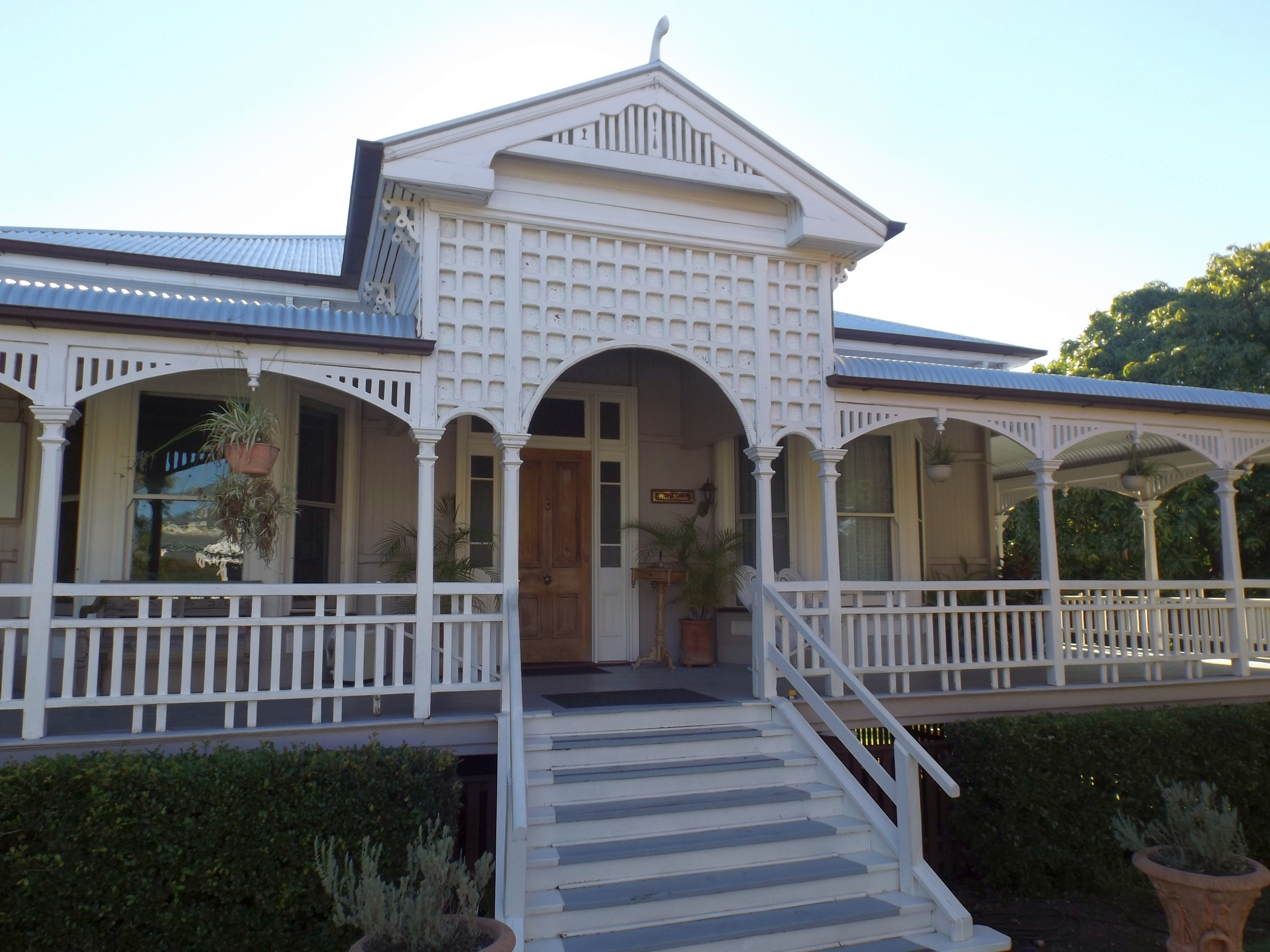 Photo of front verandah and stairs of Wiss House at Kalbar, Scenic Rim Region, Queensland, Australia.